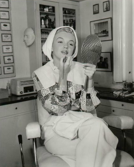 Promotion photo: Marilyn Monroe, ingenue lead in Columbia's Ladies of the Chorus demonstrates the proper way to make up the lips....